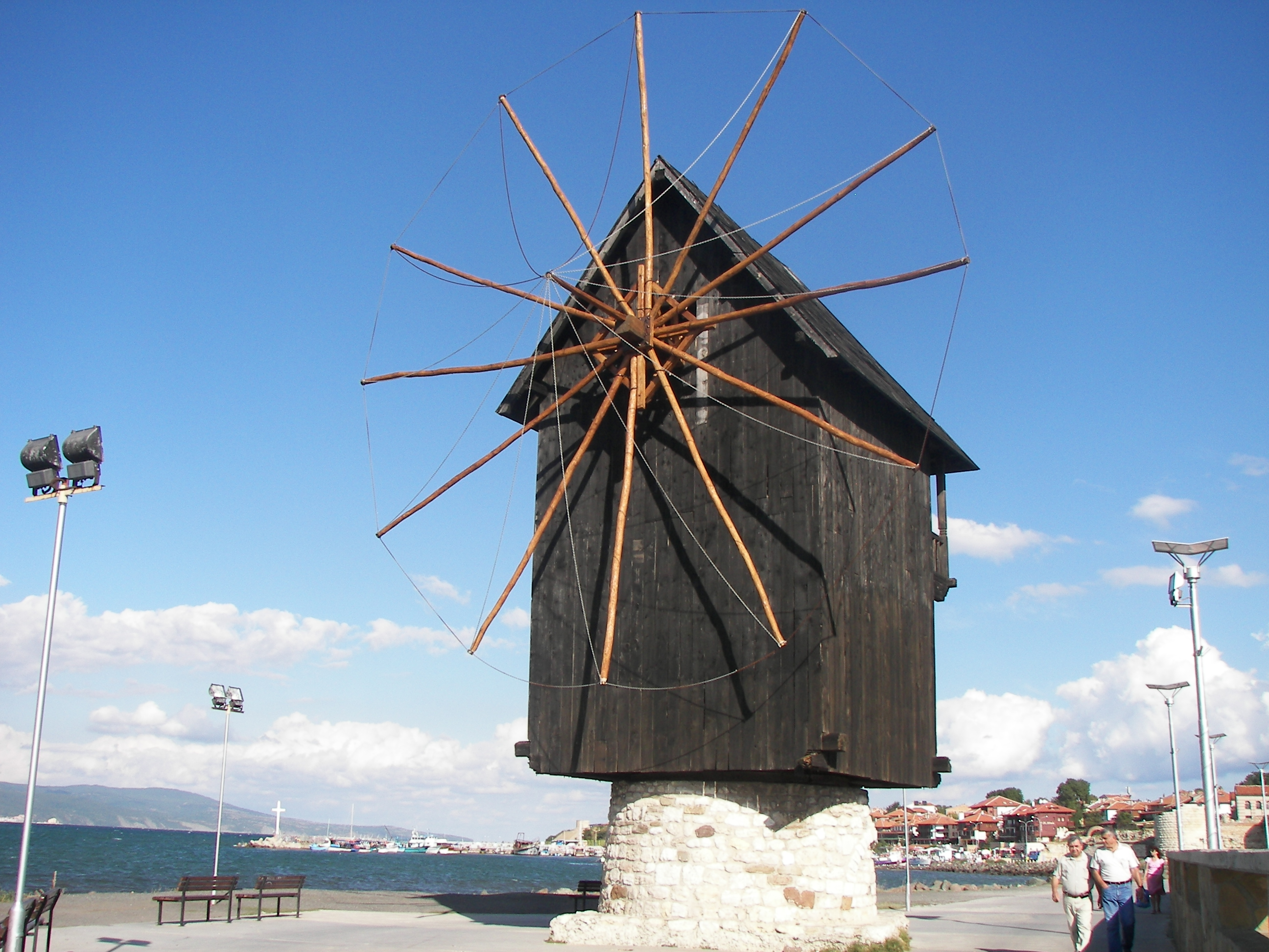 Nesebar